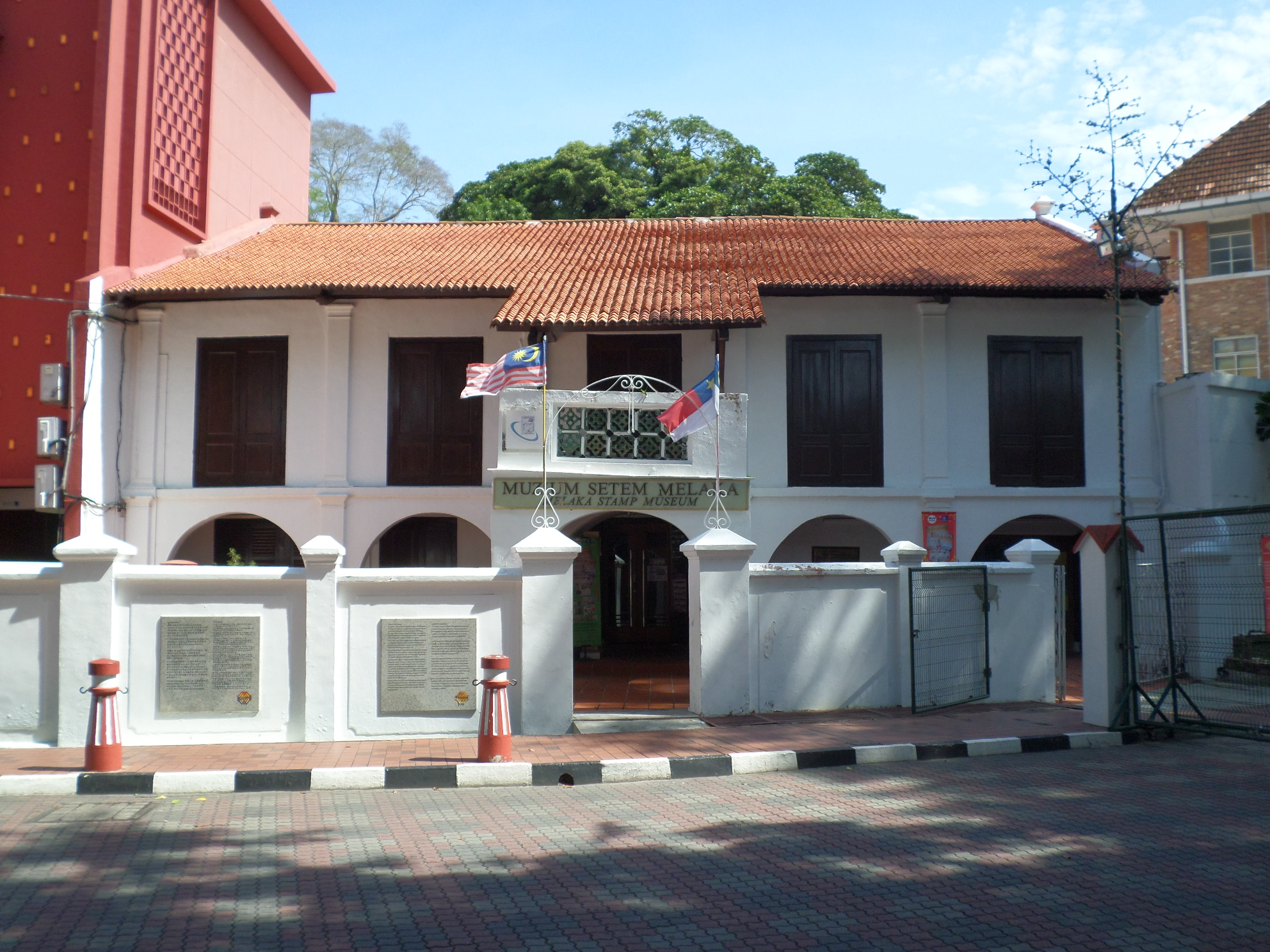 Melaka Stamp Museum, Melaka, MalaysiaBahasa Melayu: Muzium Setem Melaka, Melaka, Malaysia